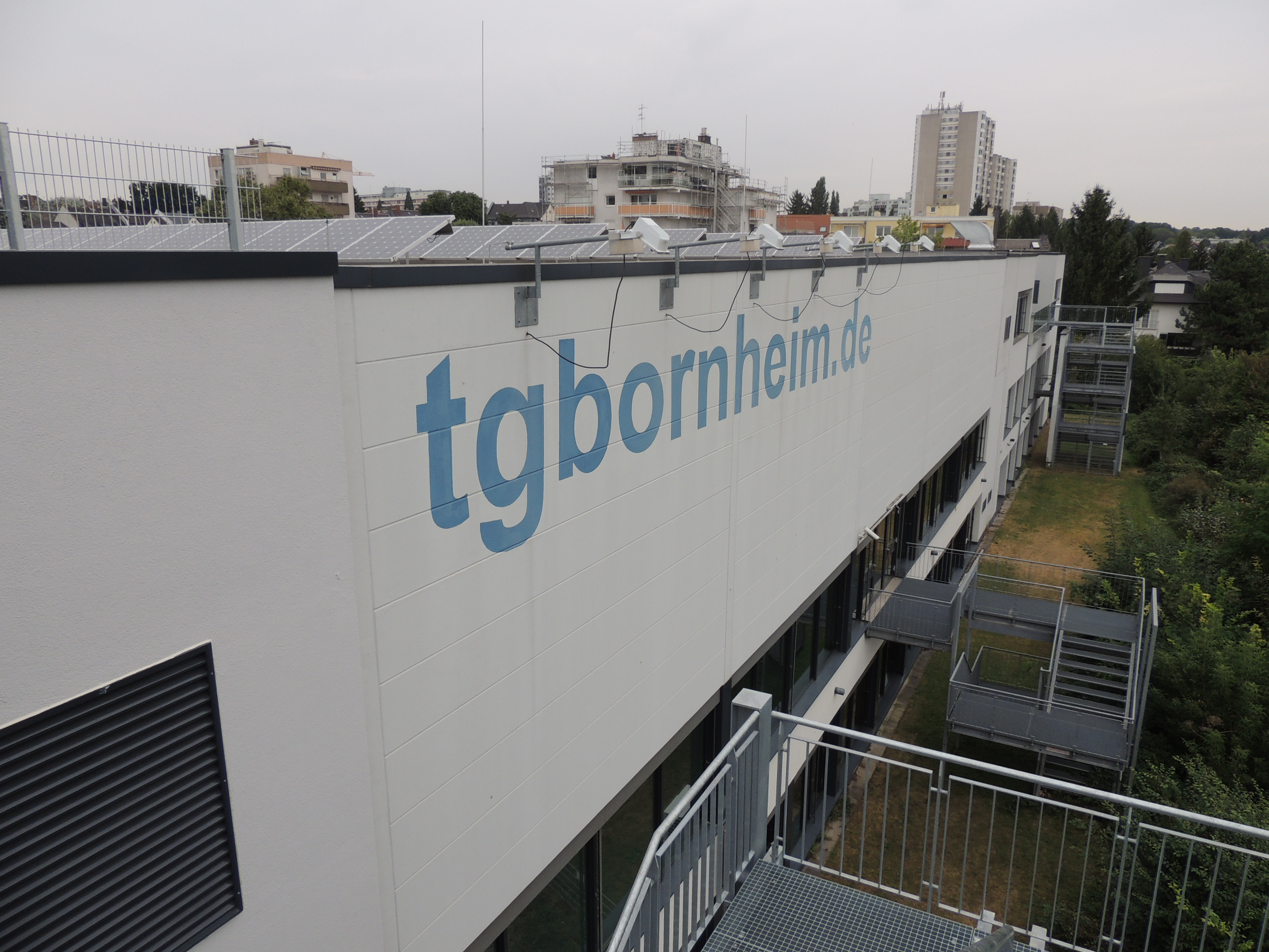 New gymnasium of the Turngemeinde Bornheim in the Inheidener Street in Frankfurt am Main-Bornheim